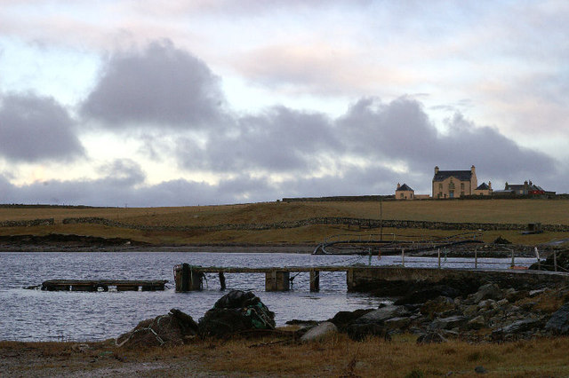 Belmont The refurbished house at Belmont, above the Wick of Belmont, taken from the ferry queue.